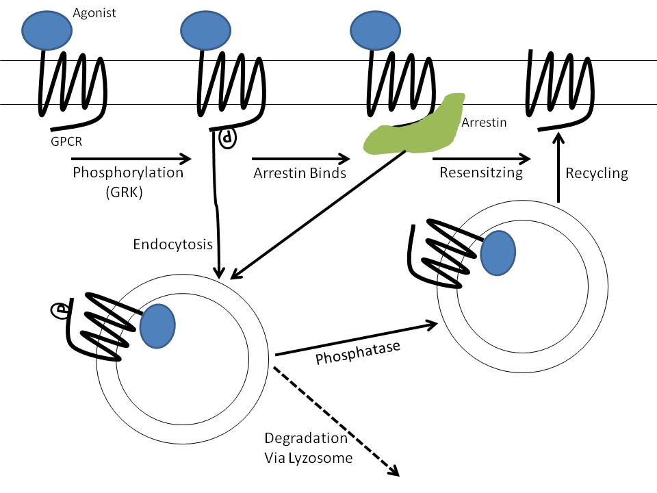 A cartoon depiction of how G-protein coupled receptors can be desensitizaed.